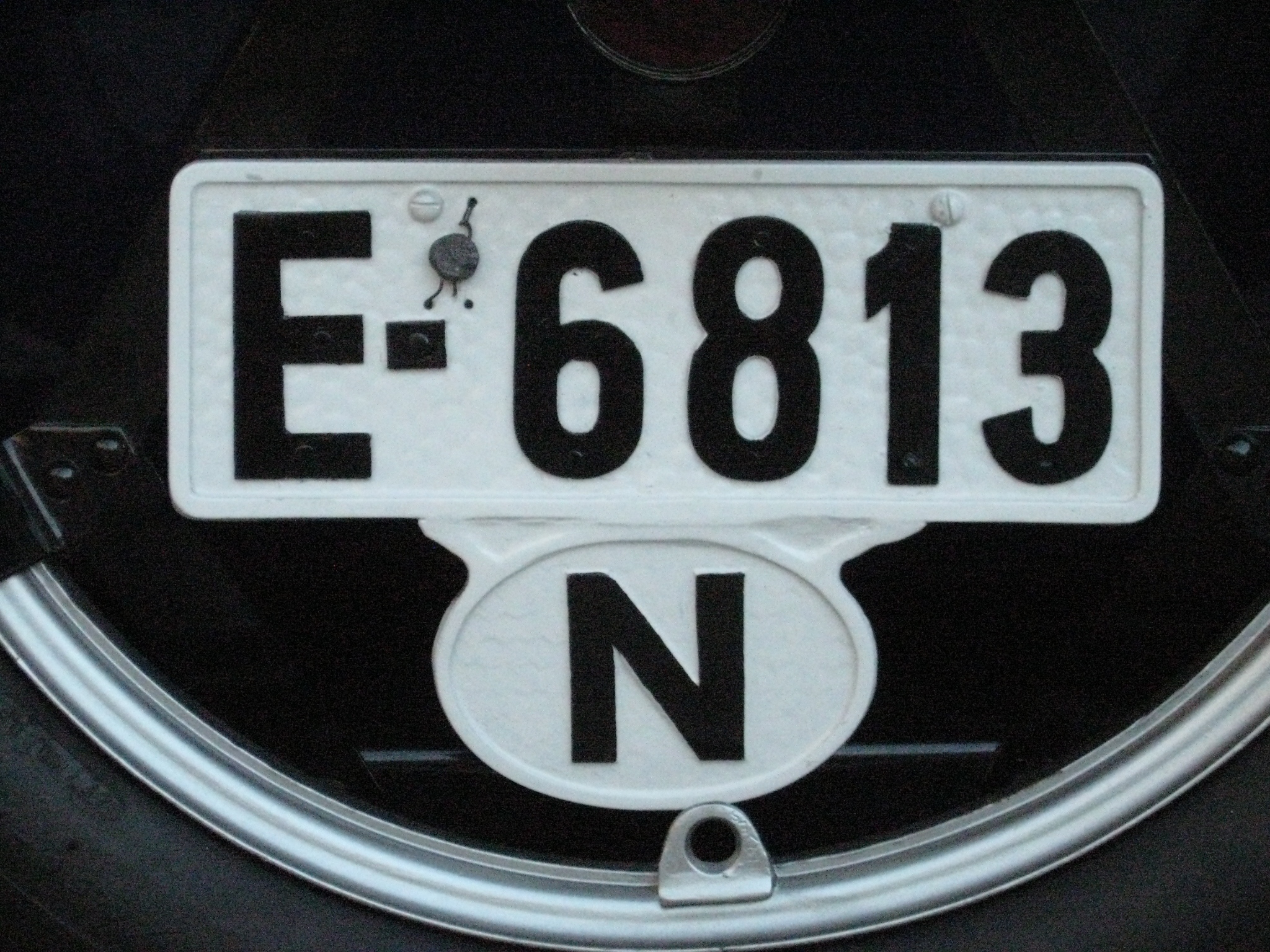 Norway automobile license plate 1929-1942